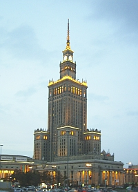 Palace of Culture and Science in Warsaw